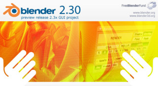 Open Screen of Blender 2.30.